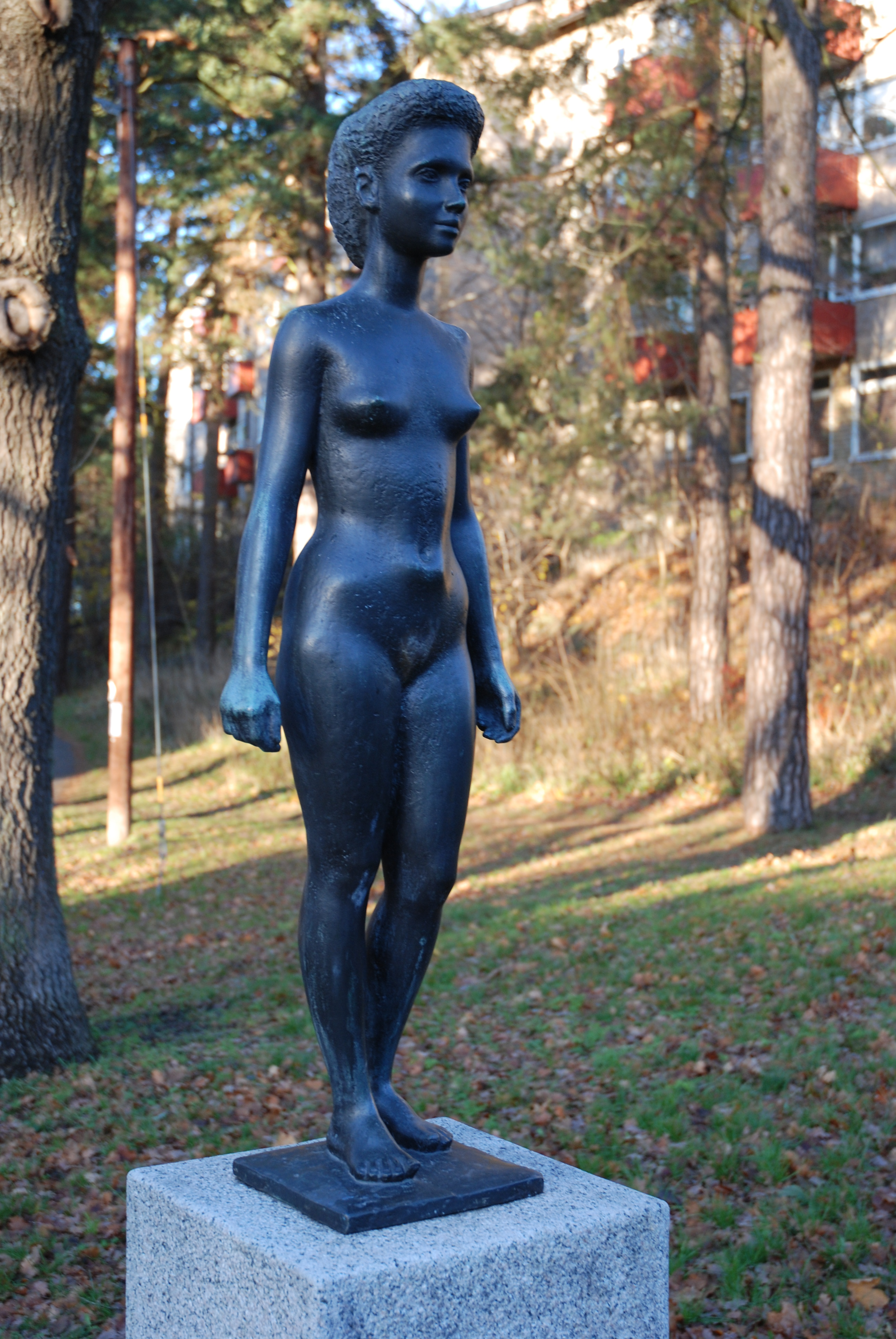 Gustav Nordahl: Lena, Västertorp, Stockholm, Sweden